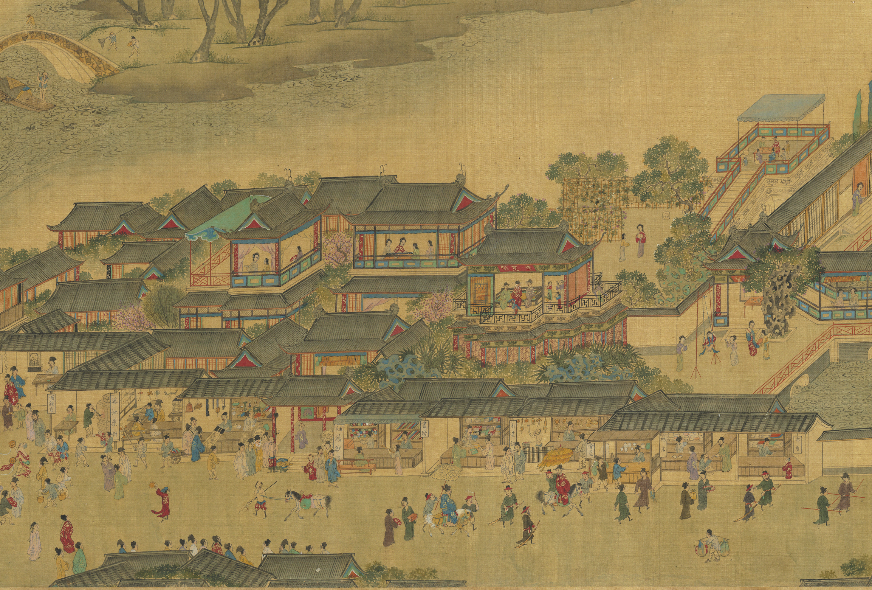 This image file depicts a section from the so-called Suzhou Imitation of Along the River During the Qingming Festival.